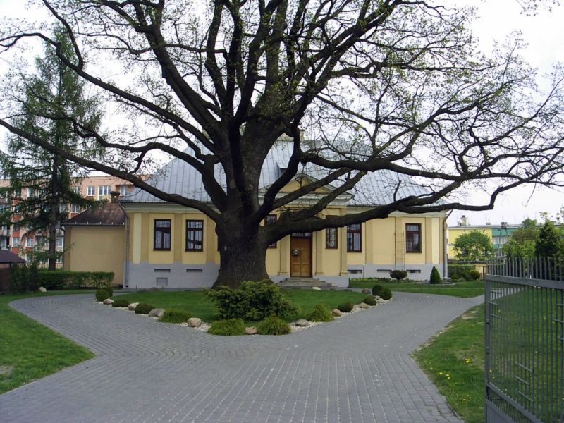 Rectory in Międzyrzec Podlaski